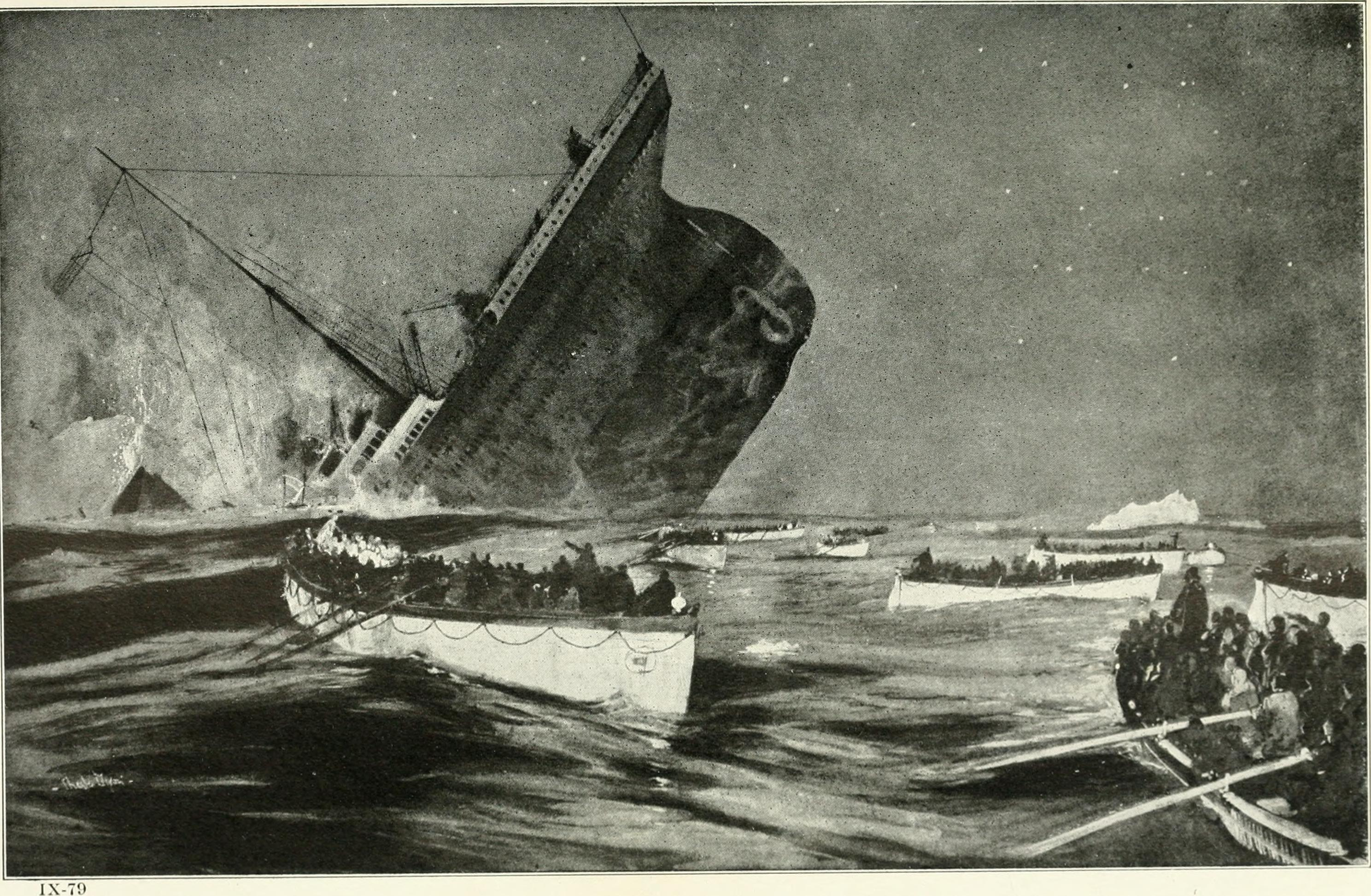 Title: The story of the greatest nations; a comprehensive history, extending from the earliest times to the present, founded on the most modern authorities, and including chronological summaries and pronouncing vocabularies for each nation; and the world's famous events, told in a series of brief sketches forming a single continuous story of history and illumined by a complete series of notable illustrations from the great historic paintings of all lands Year: 1913 (1910s) Authors: Ellis, Edward Sylvester, 1840-1916 Horne, Charles F. (Charles Francis), 1870-1942 Subjects: World history Publisher: New York : Niglutsch Text Appearing Before Image: IX-7J Text Appearing After Image: '